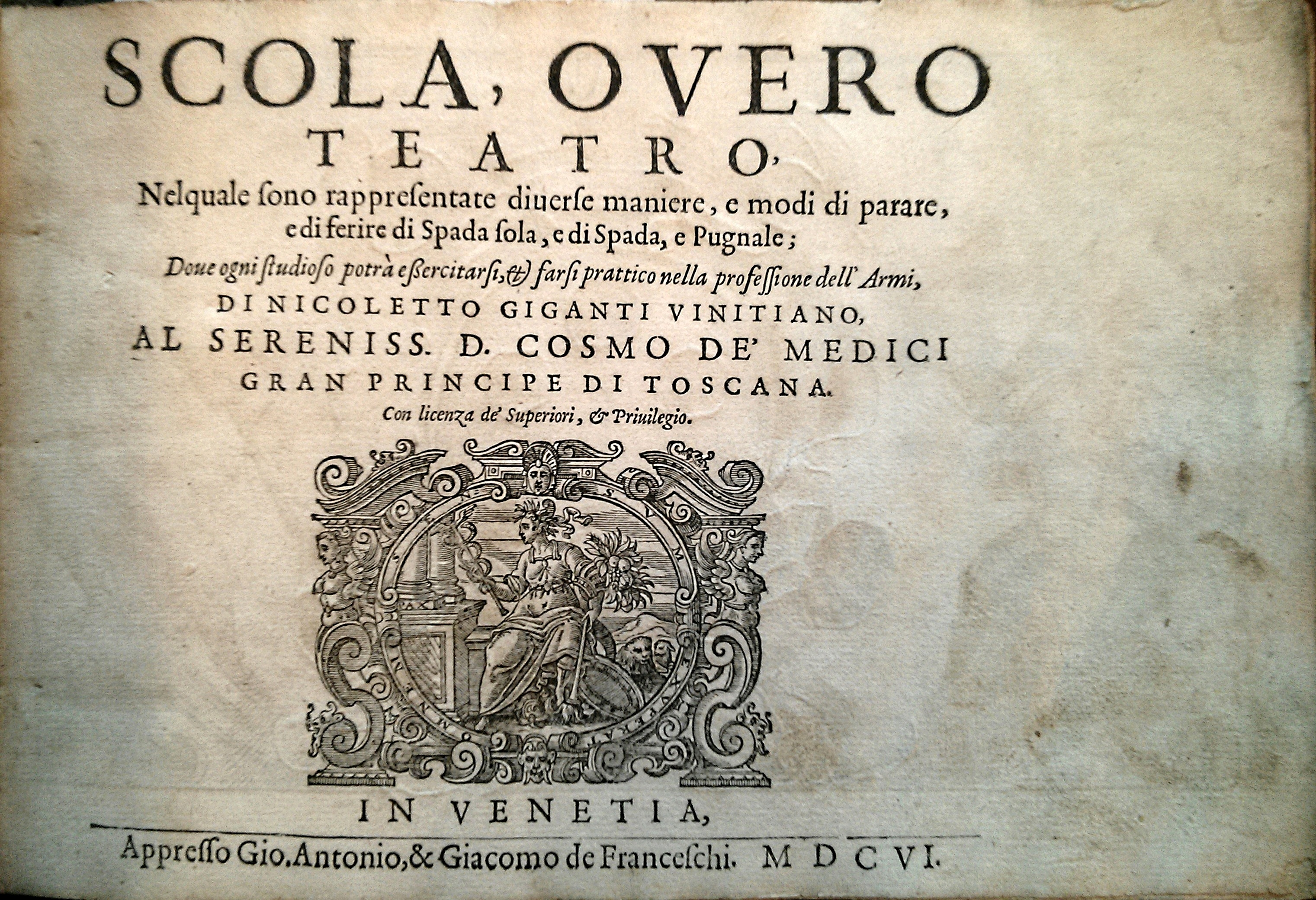 Трактат "Scola overo Teatro". Николетто Гиганти